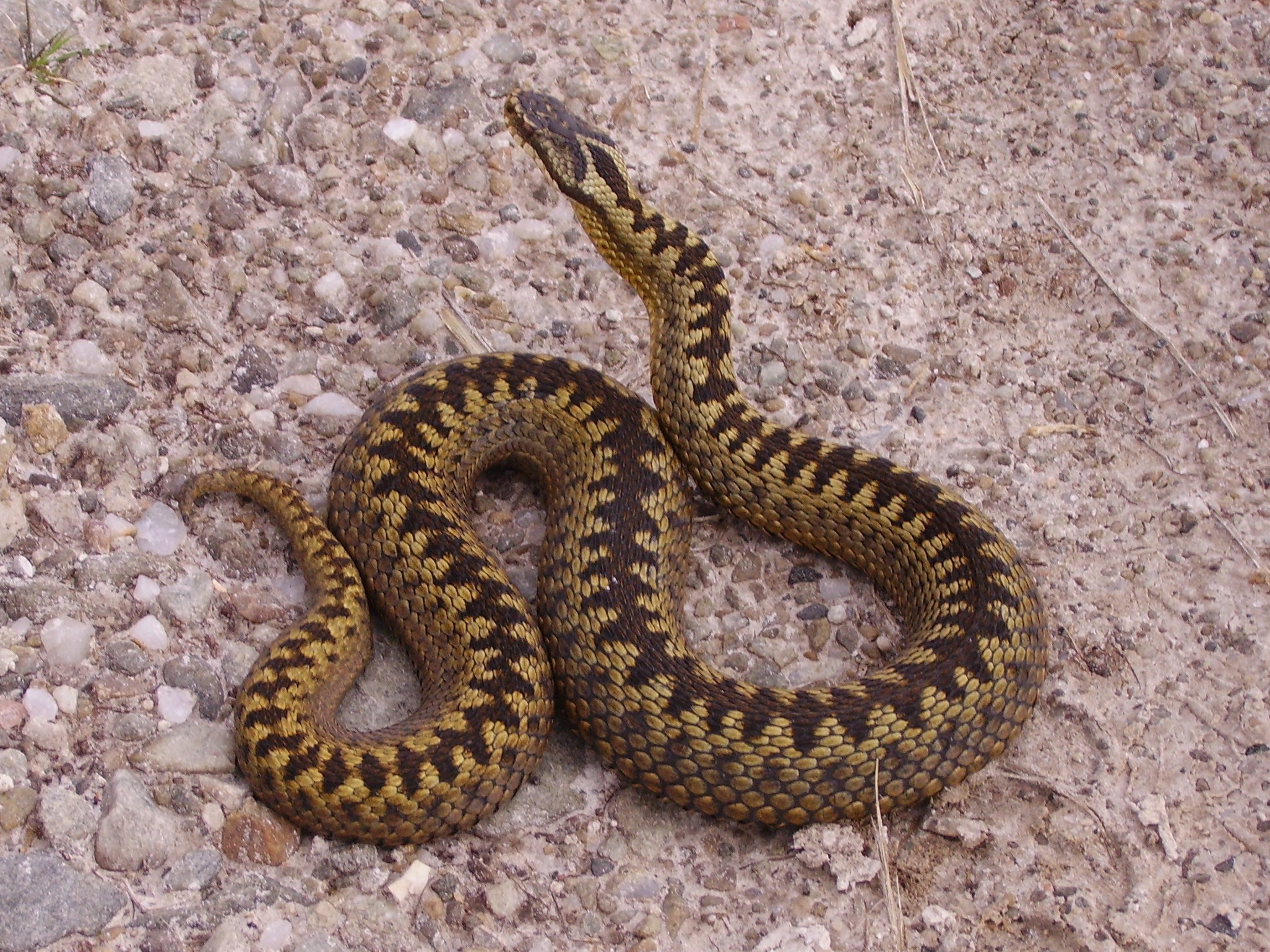 Adult female adder (Vipera berus) taken by Loch Shin, Sutherland, Scotland. Rather than slither silently away after being disturbed basking in the sun this individual chose to pose for a photograph!